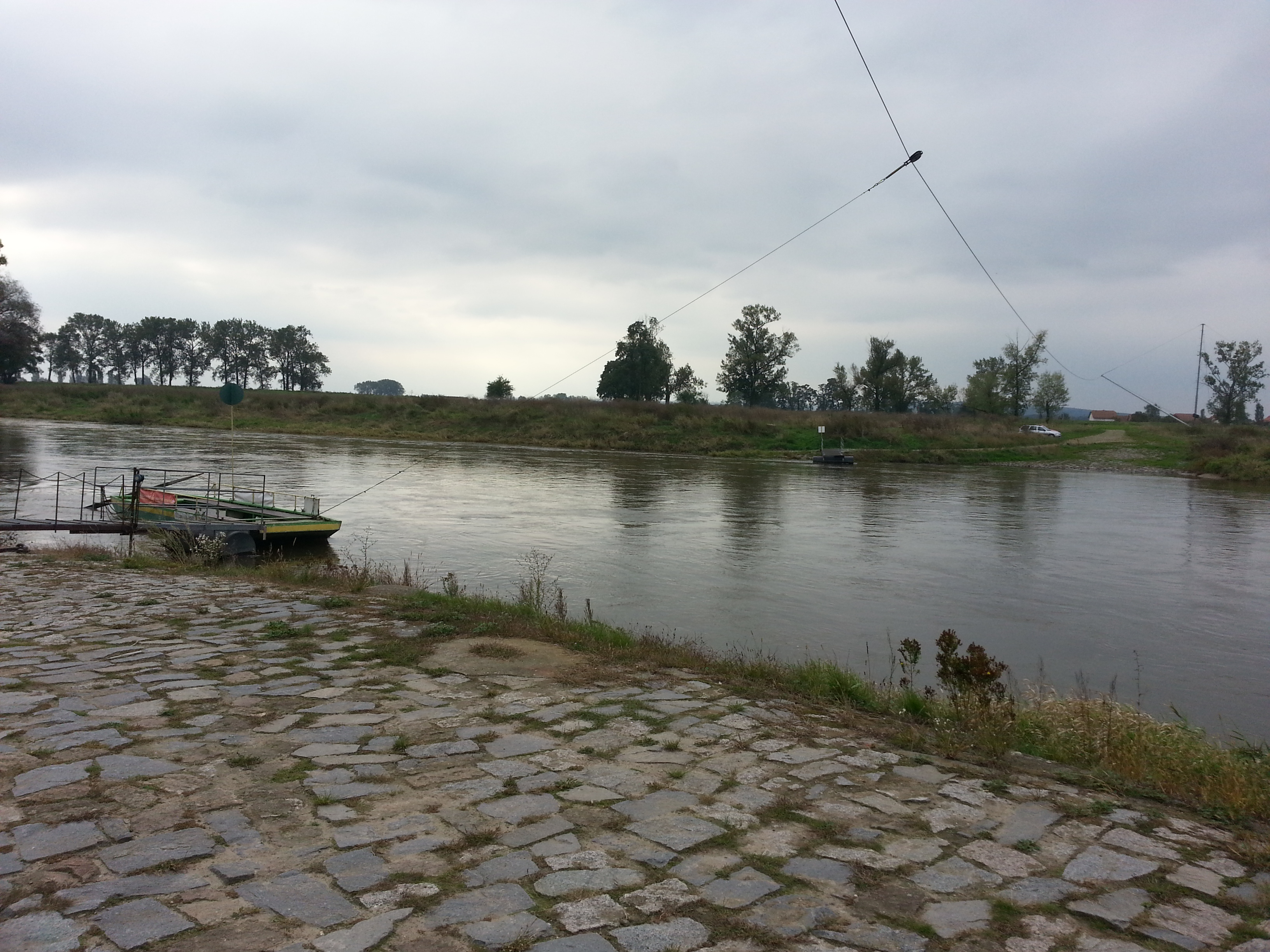 Reaction ferry at Lužec nad Vltavou, Czech Republic. It is powered by the river current